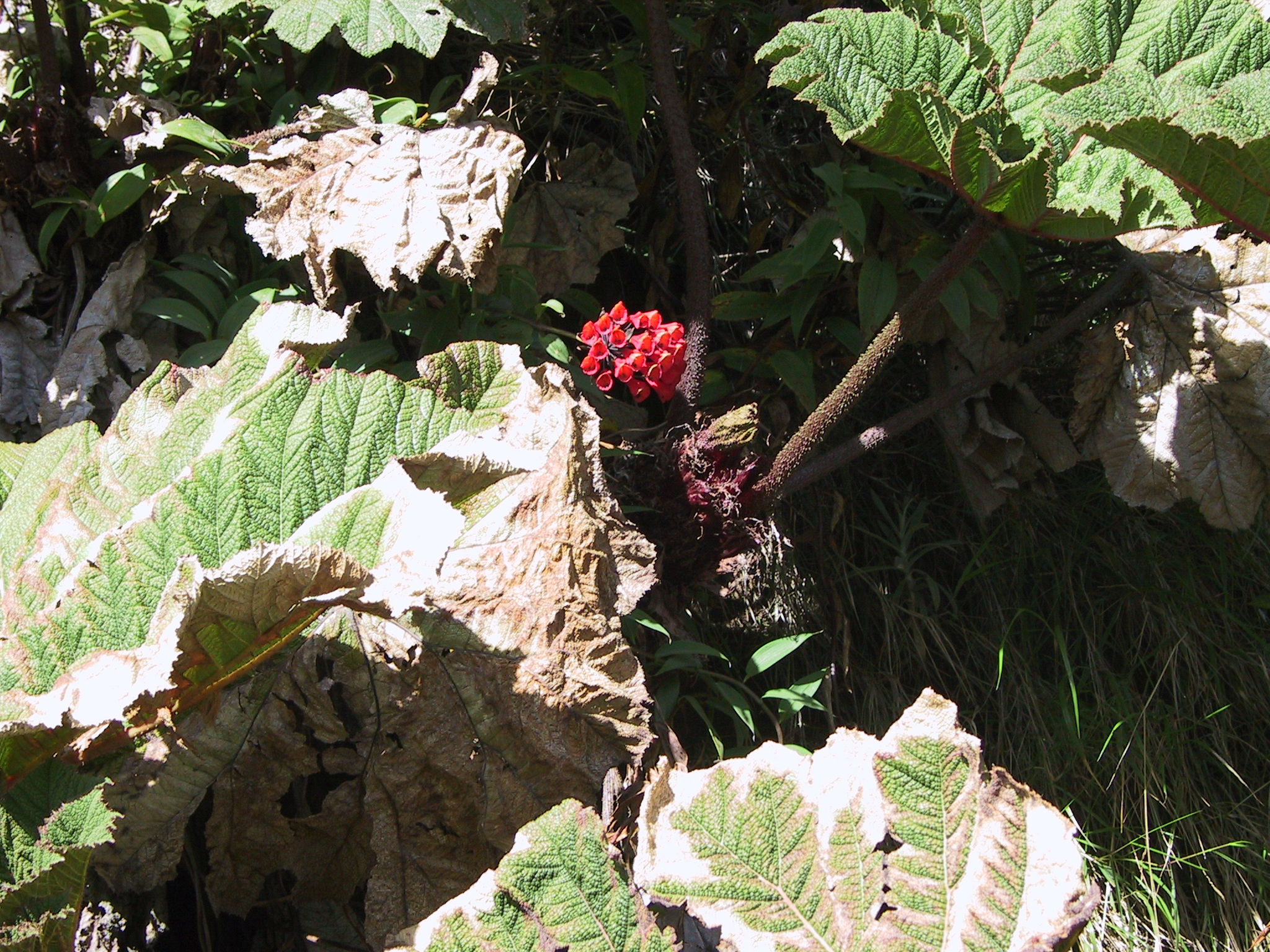 Description: Gunnera insignis, Costa Rica, crater area of Irazu, abow 3400 m Source: self made Date: 2002-14-03 Author = --Ruestz 17:25, 5 April 2006 (UTC)